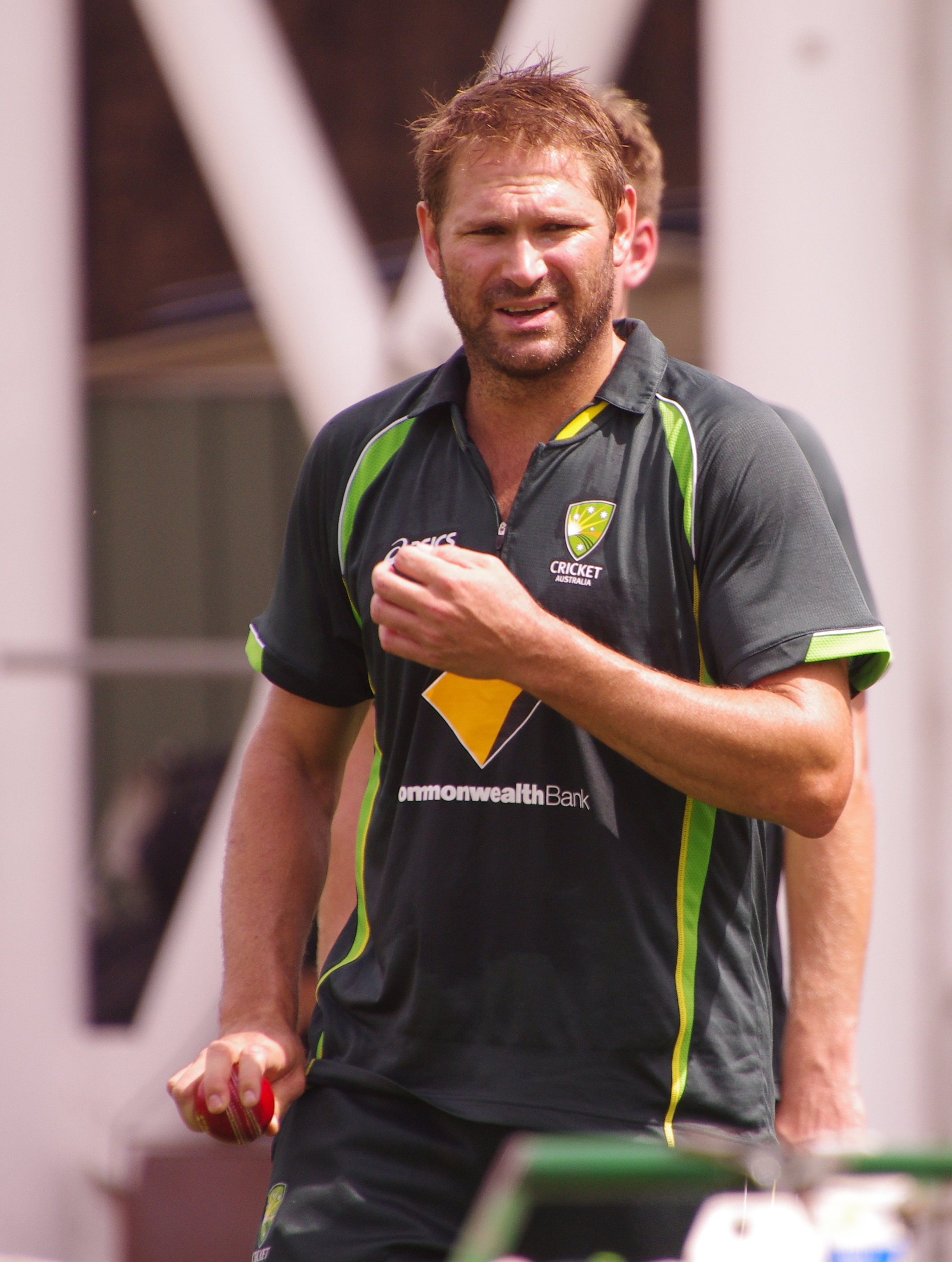 Ryan Harris in 2014